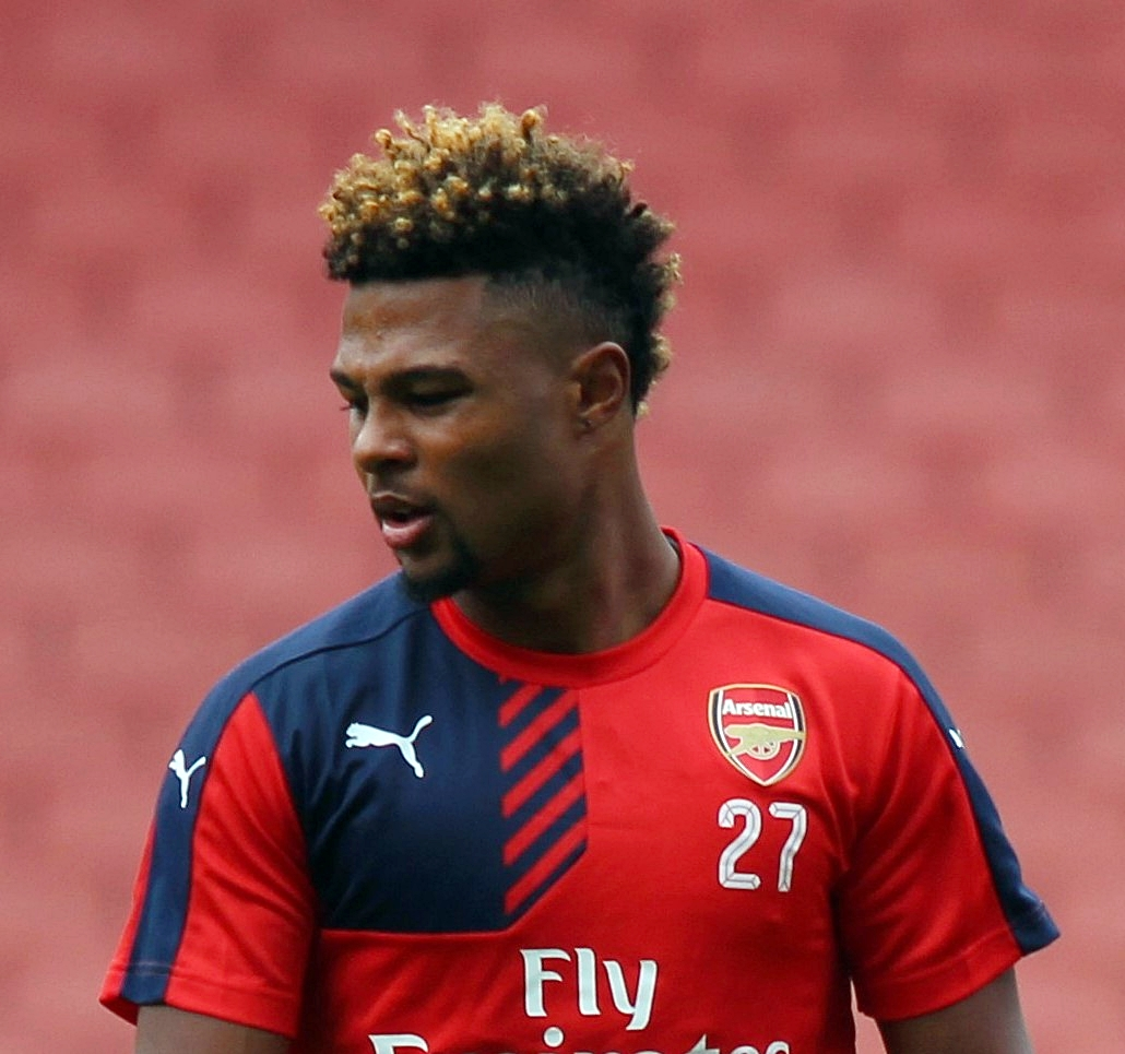 Serge Gnabry of Arsenal during the 2015 Arsenal Members' Day Open Training Session.